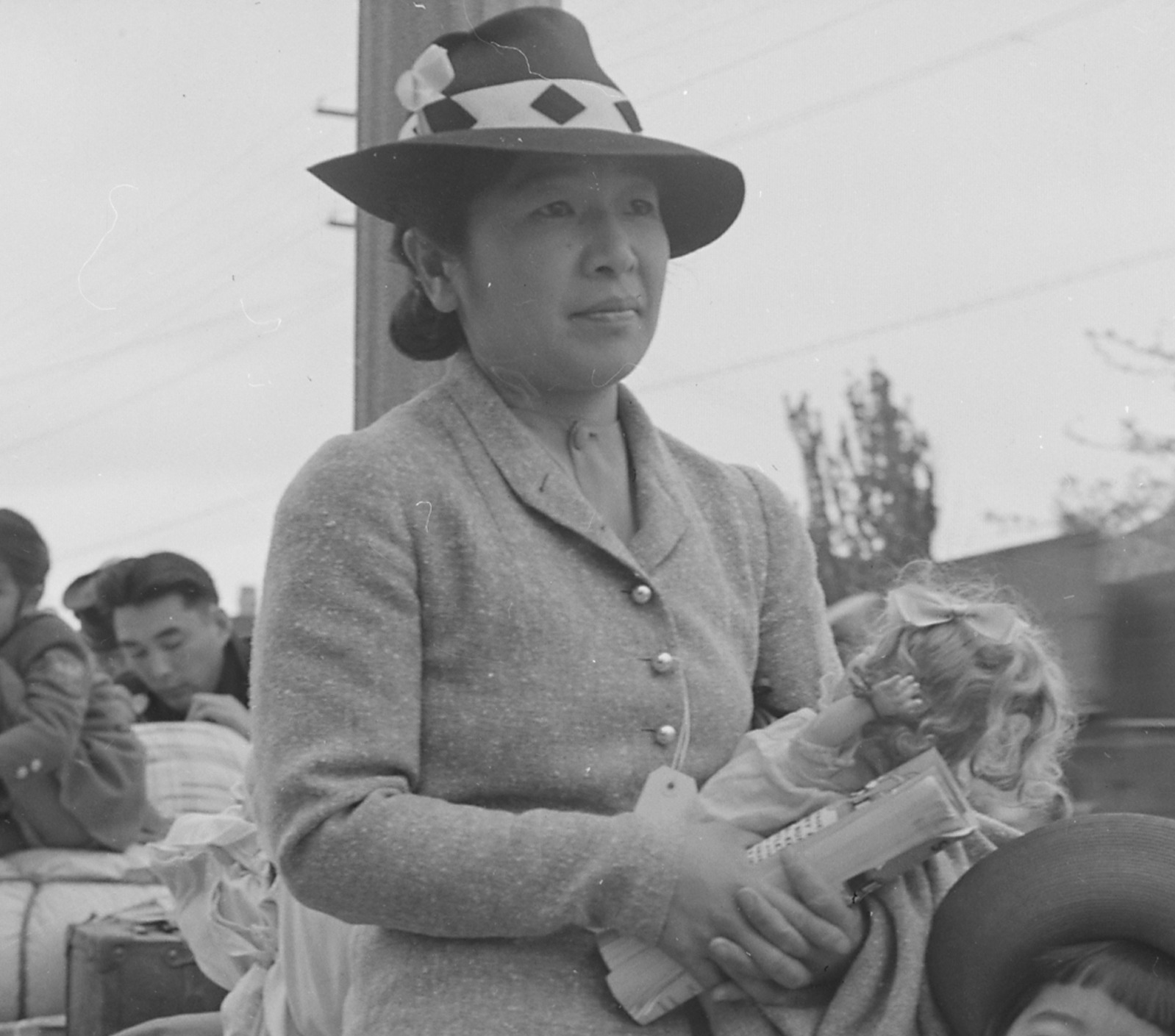 Scope and content: The full caption for this photograph reads: Hayward, California. These people of Japanese ancestry are awaiting the special bus which will take them, and other evacuees, to the Tanforan Assembly center. The father of this small family is attending to their luggage and bed rolls. They will spend the duration at a War Relocation Authority center.